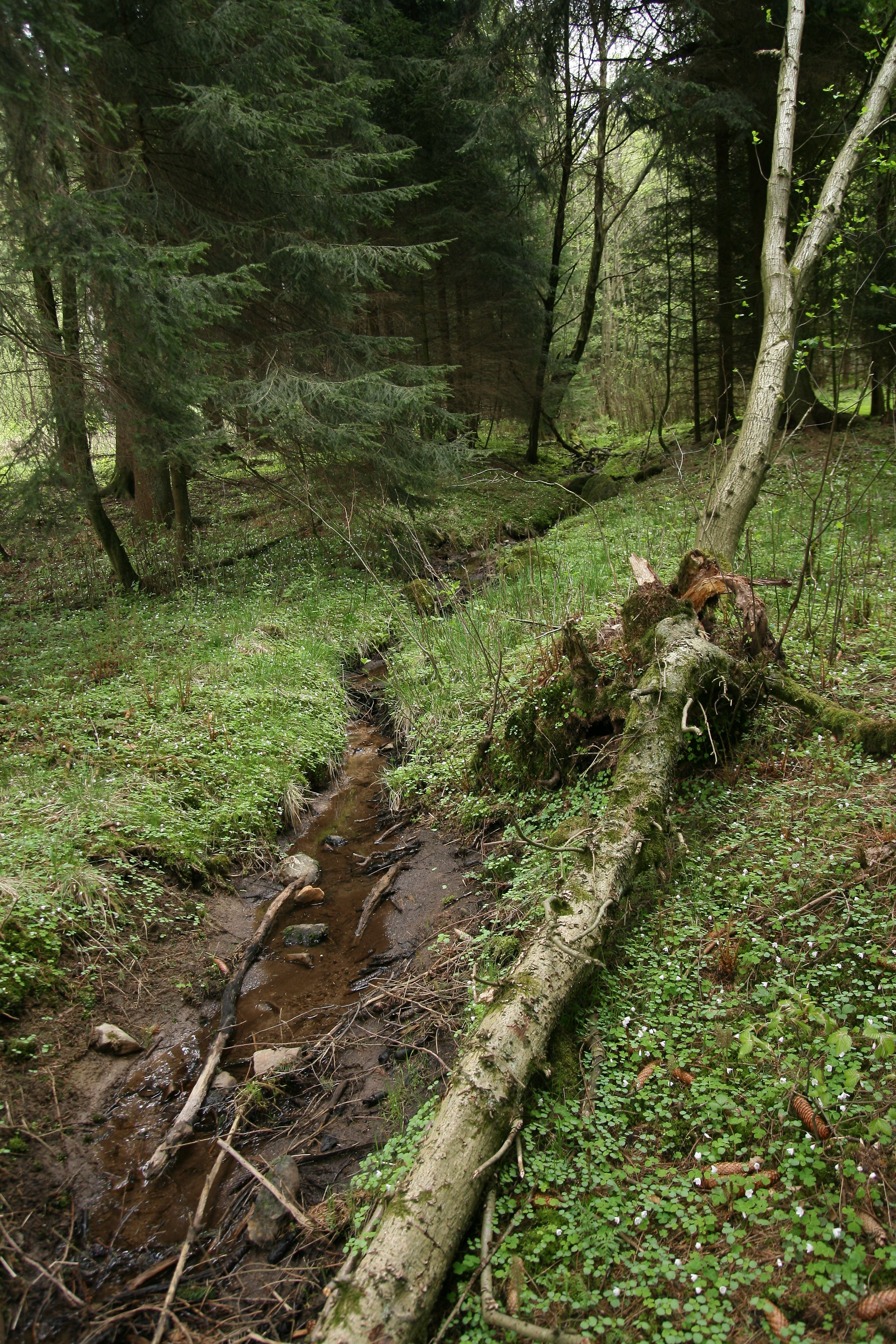 River Sayn source region north of Wetzstein near Himburg, Westerwald, Rhineland-Palatinate, Germany